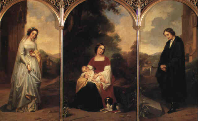 Fanny (Fanny Corr) Geefs (1807-1883), Belgian painter, "Piti, Amour, Douleur" (The Life of a Woman, Pity, Love, Sorrow.)